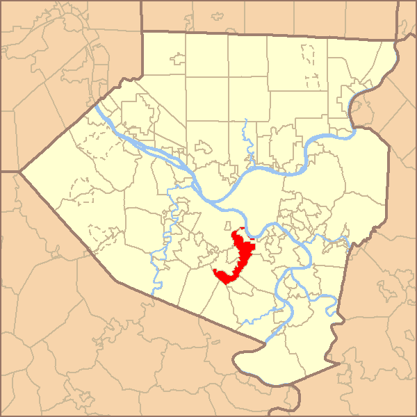 Map highlighting the municipality within Allegheny County, Pennsylvania.